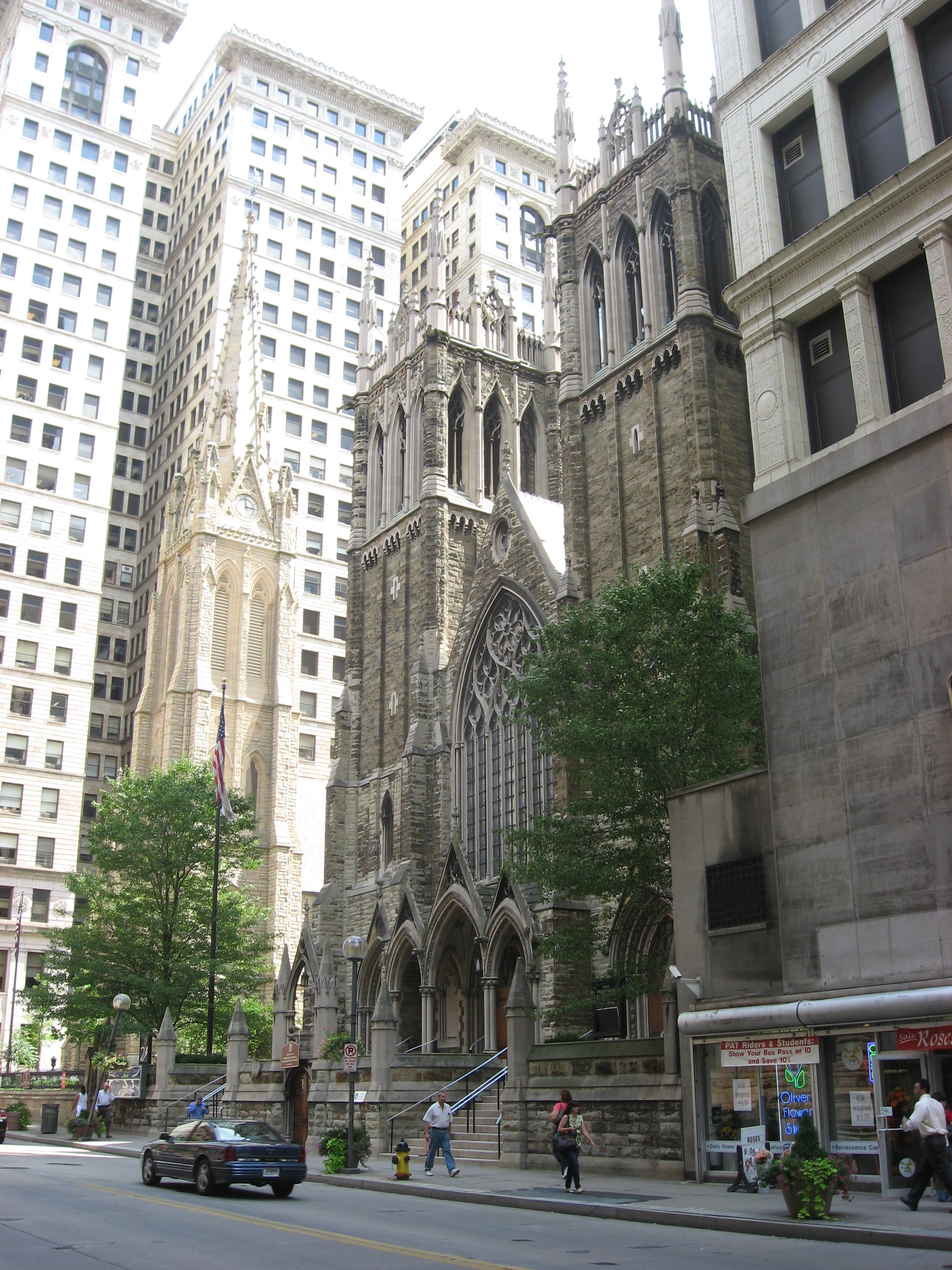 Buildings along Sixth Avenue in downtown Pittsburgh, Pennsylvania, United States. Visible in the foreground is First Presbyterian Church — where Clarence E. Macartney was once the pastor — and Trinity Cathedral to its left. These churches and the surrounding buildings are part of the Pittsburgh Central Downtown Historic District, a historic district that is listed on the National Register of Historic Places.